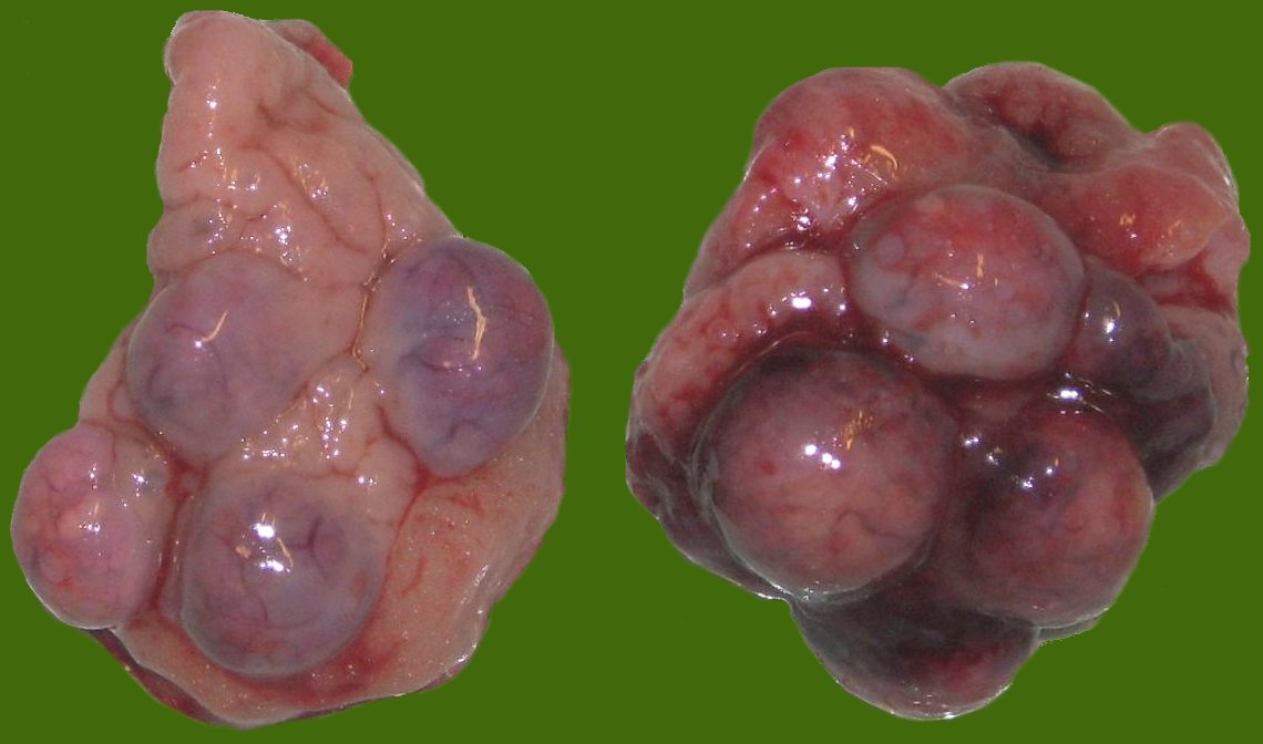 ovaries of a bitch with ovarial cysts